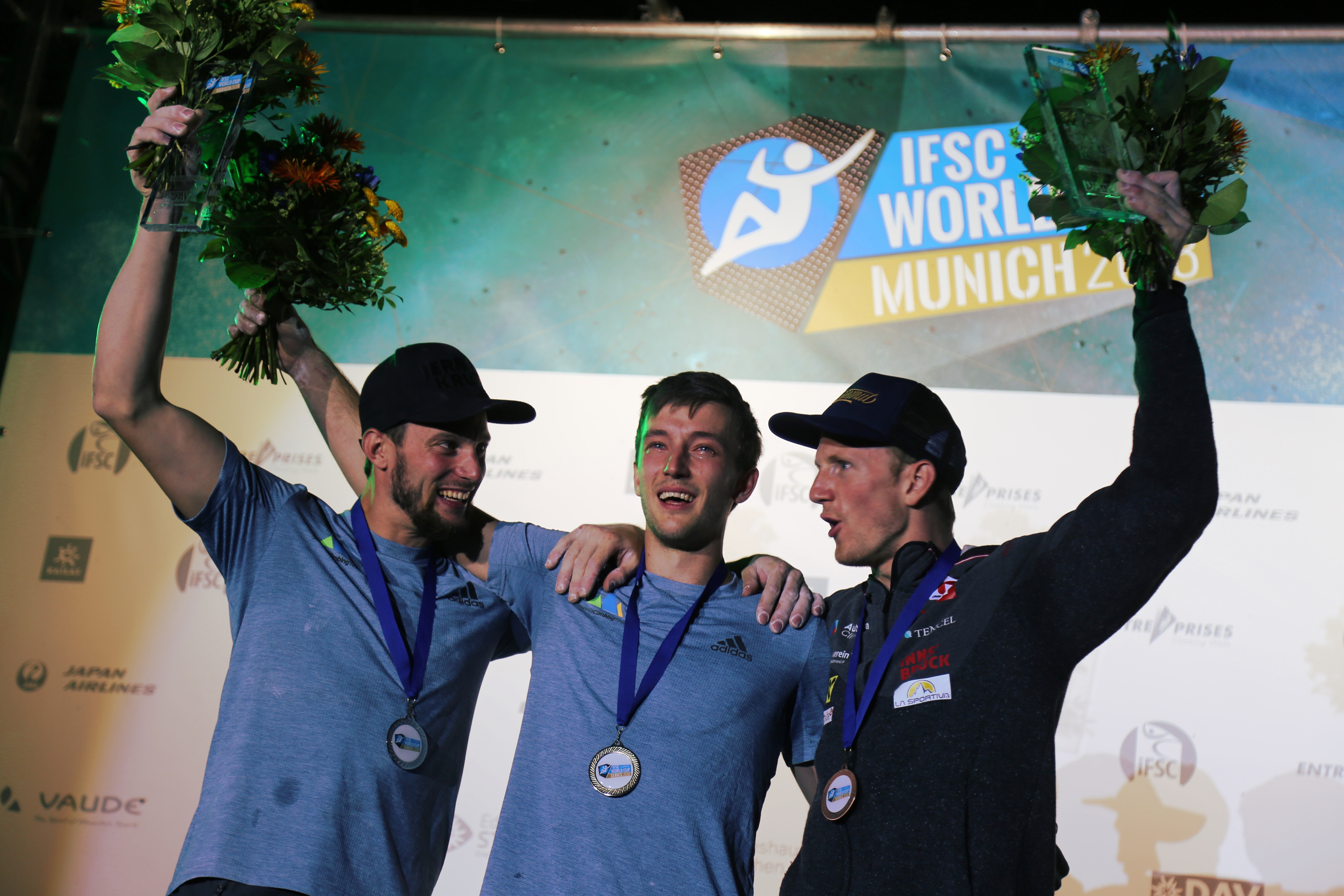 Boulder Worldcup 2018, Final Event in Munich 2018-08-18, Winners: 1st place VEZONIK Gregor SLO, 2nd place: KRUDER Jernej, SLO, 3rd place: SCHUBERT Jakob, AUT